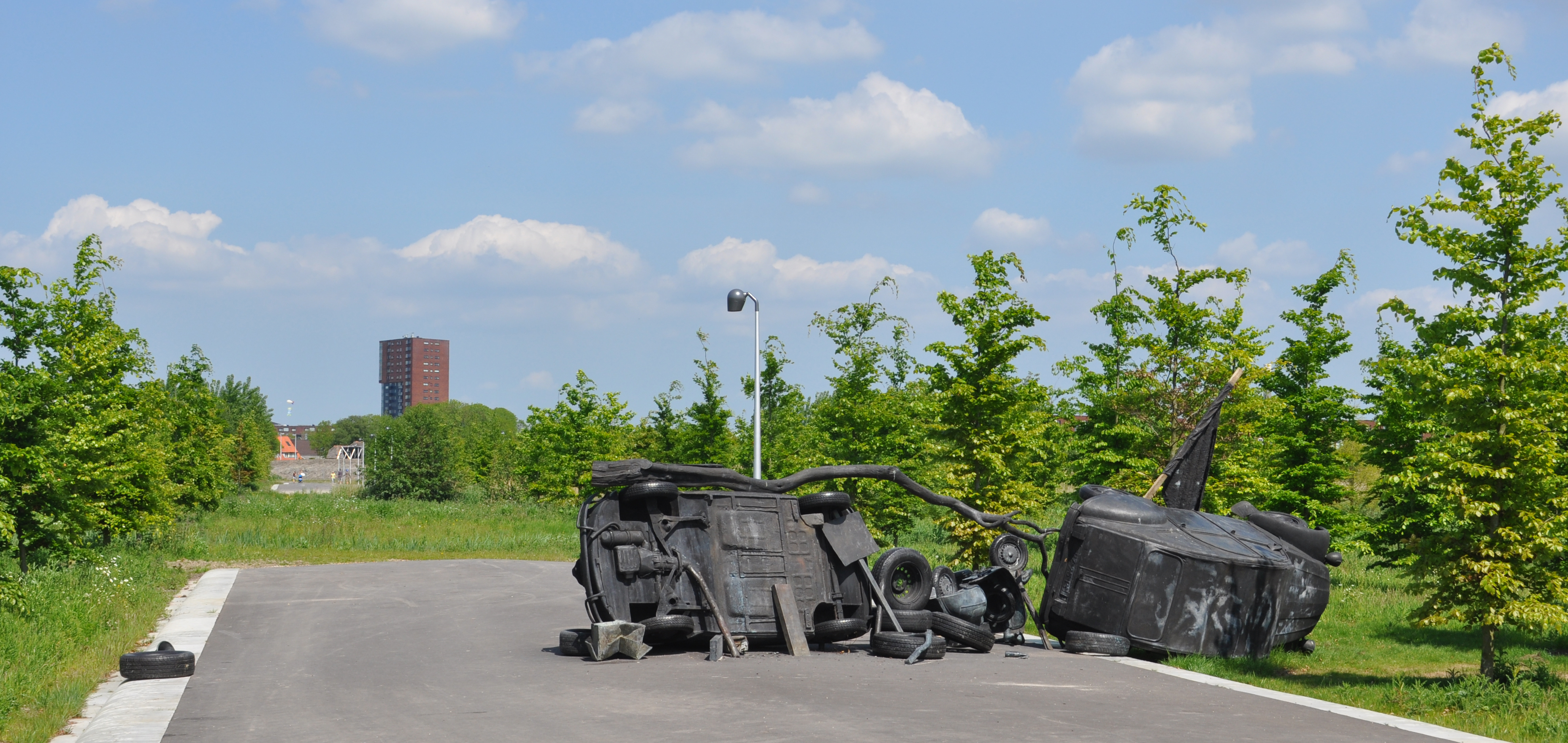 Sculpture "Barricade" by Fernando Sánchez Castillo in 2009, placed in the Park Leidsche Rijn (Utrecht) at the Alendorperweg.